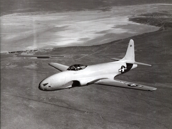 XP-80A Gray Ghost in flight, from and uploaded by Willy Logan.